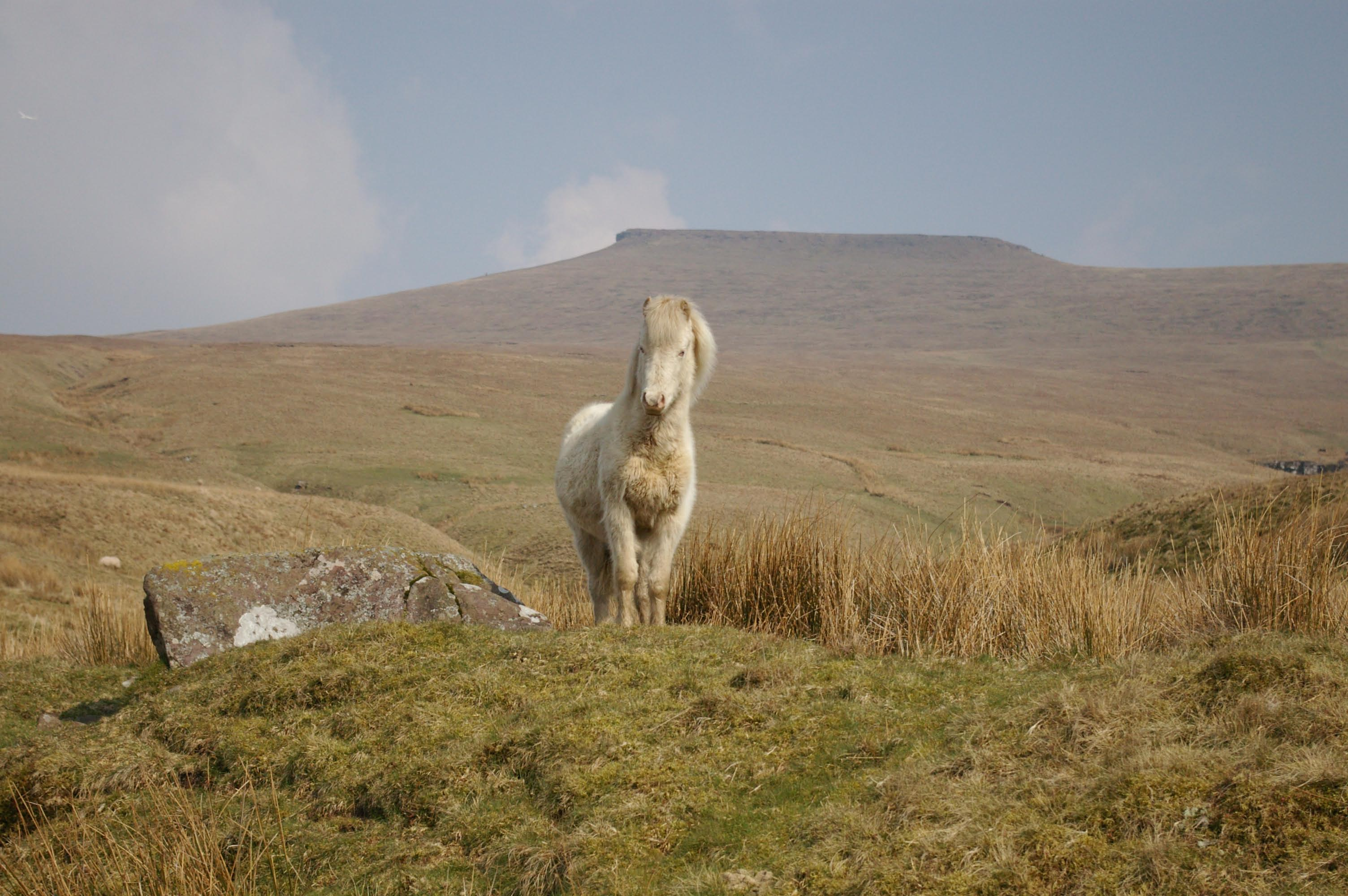 Taken in the Brecon Beacons. Samasnookerfan (talk) 16:25, 9 February 2008 (UTC)